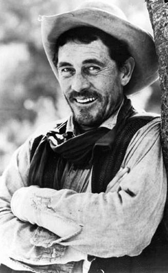 The image of American actor Ken Curtis (1916–1991) The photo has no copyright markings on it as can be seen in the links above.